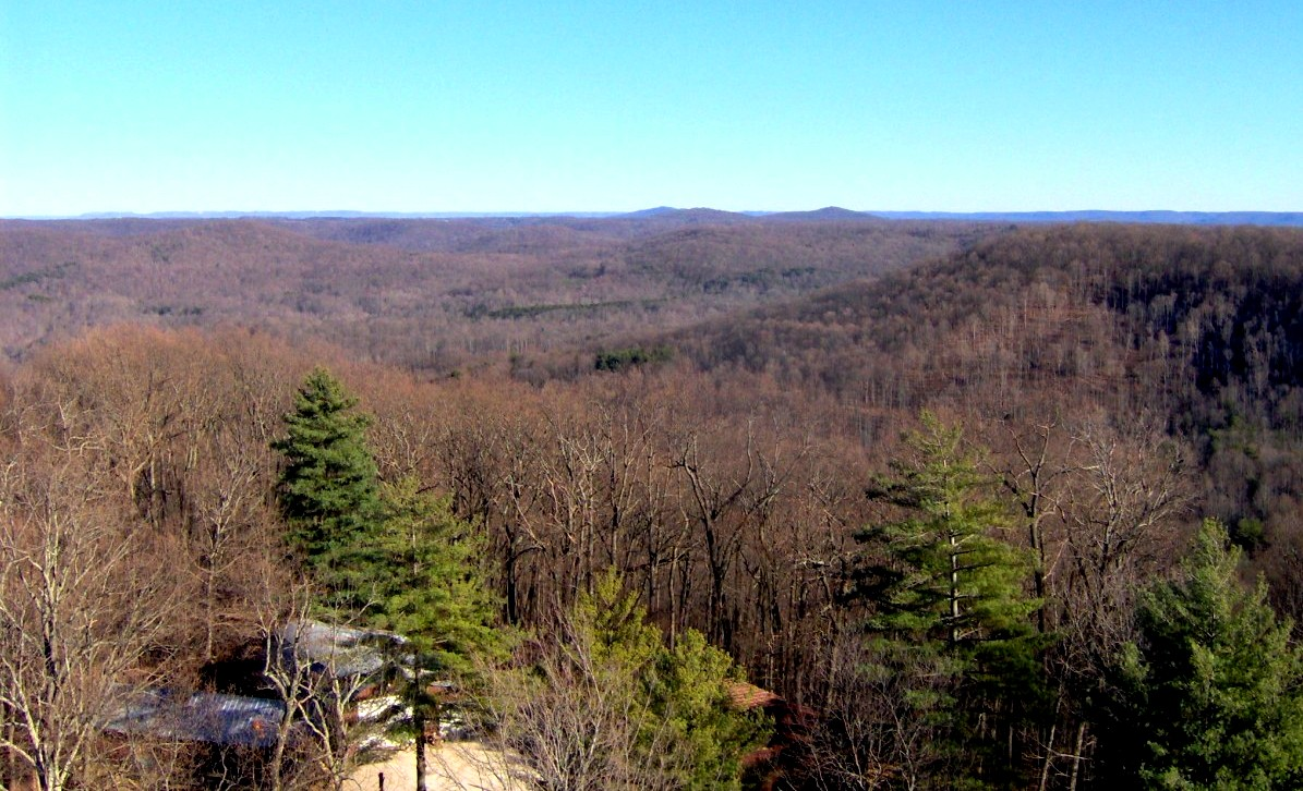 The view looking northeast from the Goodpasture Mountain Firetower in Standing Stone State Forest in Overton County, Tennessee, in the southeastern United States. The tower and several other buildings are located at the summit of Goodpasture Mountain. A gravel road leads to the summit, but it's often gated to vehicular traffic. The state forest and state park comprise the lands in the foreground. The Cumberland Plateau is the thin blue-to-navy line spanning most of the horizon.